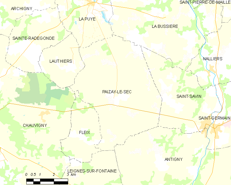 Map of French municipality Paizay-le-Sec